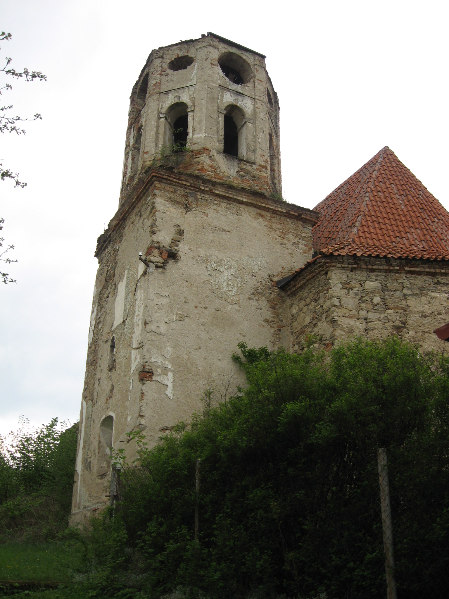 Church in Šitboř by Poběžovice, Domažlice District, Czech Republic